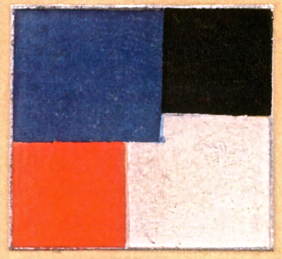 Cubist shield of R-26, designed by Georges Vantongerloo. 1 January 1930.